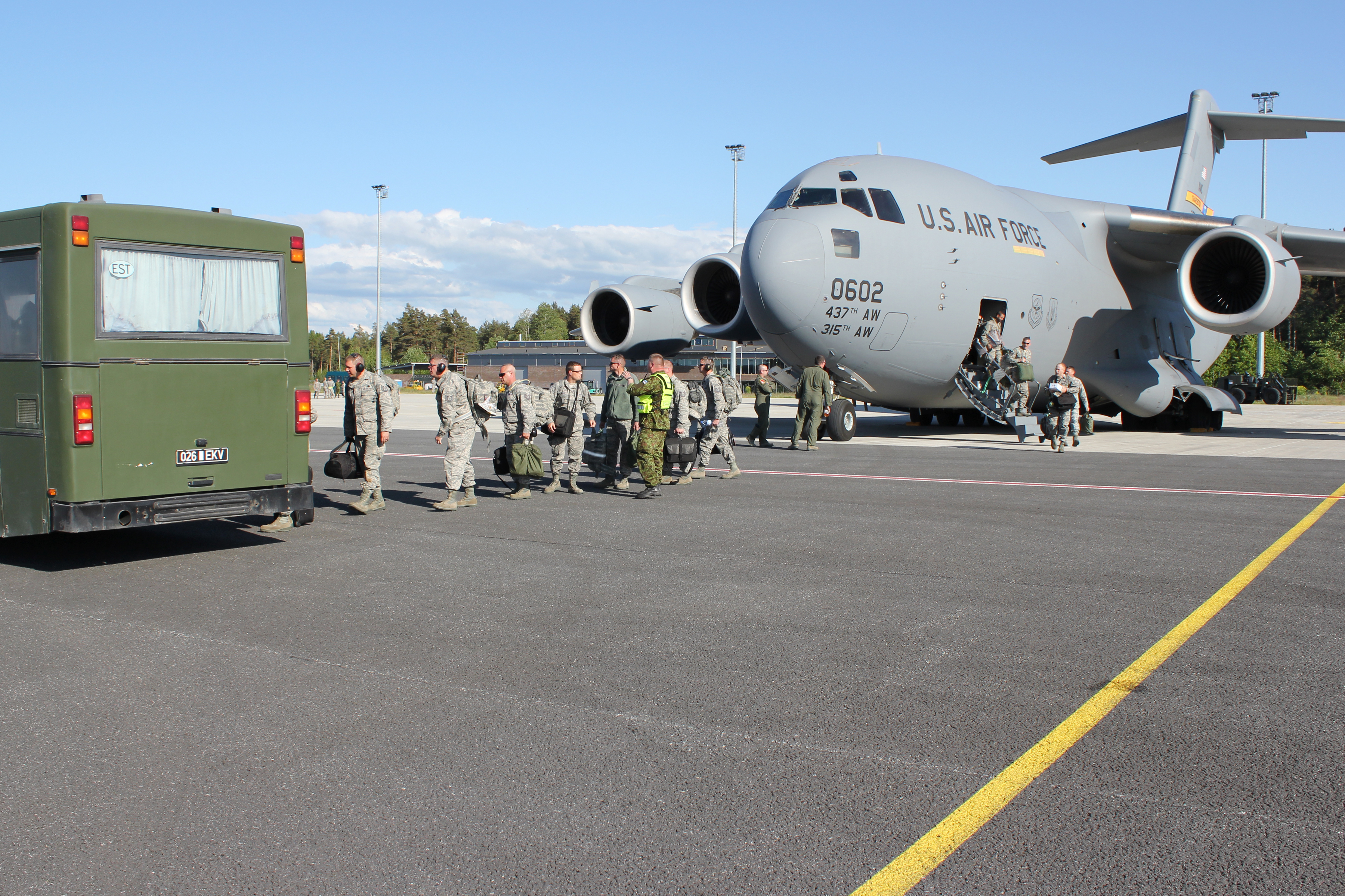 Airmen from the 127th Wing, Michigan Air National Guard, disembark from a C-17 Globemaster at Amari Air Base, Estonia, June 8, 2012. The C-17 was delivering cargo and Air Force personnel to Estonia to participate in Saber Strike 2012, a multi-national exercise based in Estonia and Latvia. (National Guard photo by TSgt. Dan Heaton)